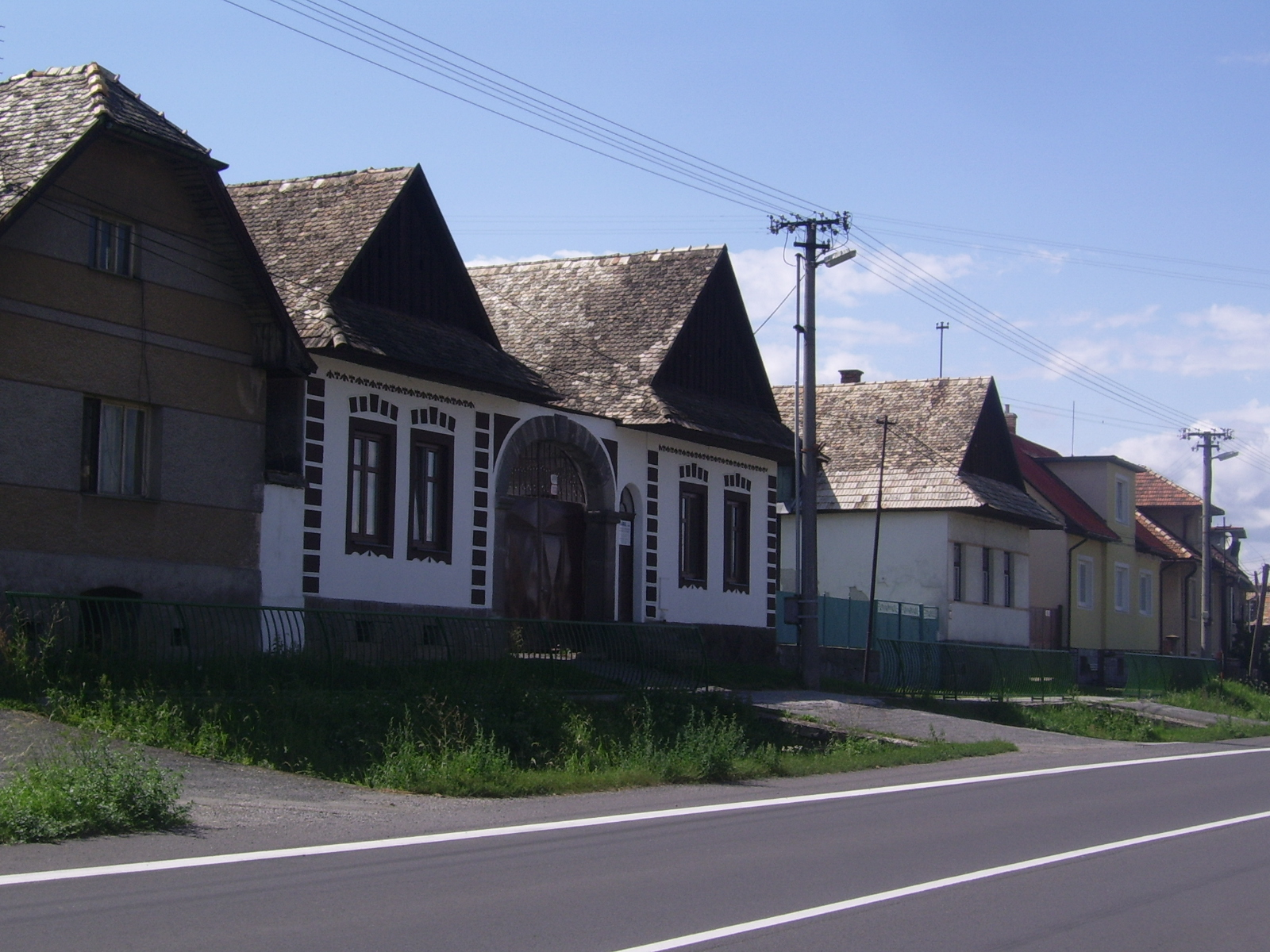 Old slovak "double house" in Dobrá Niva, Slovakia